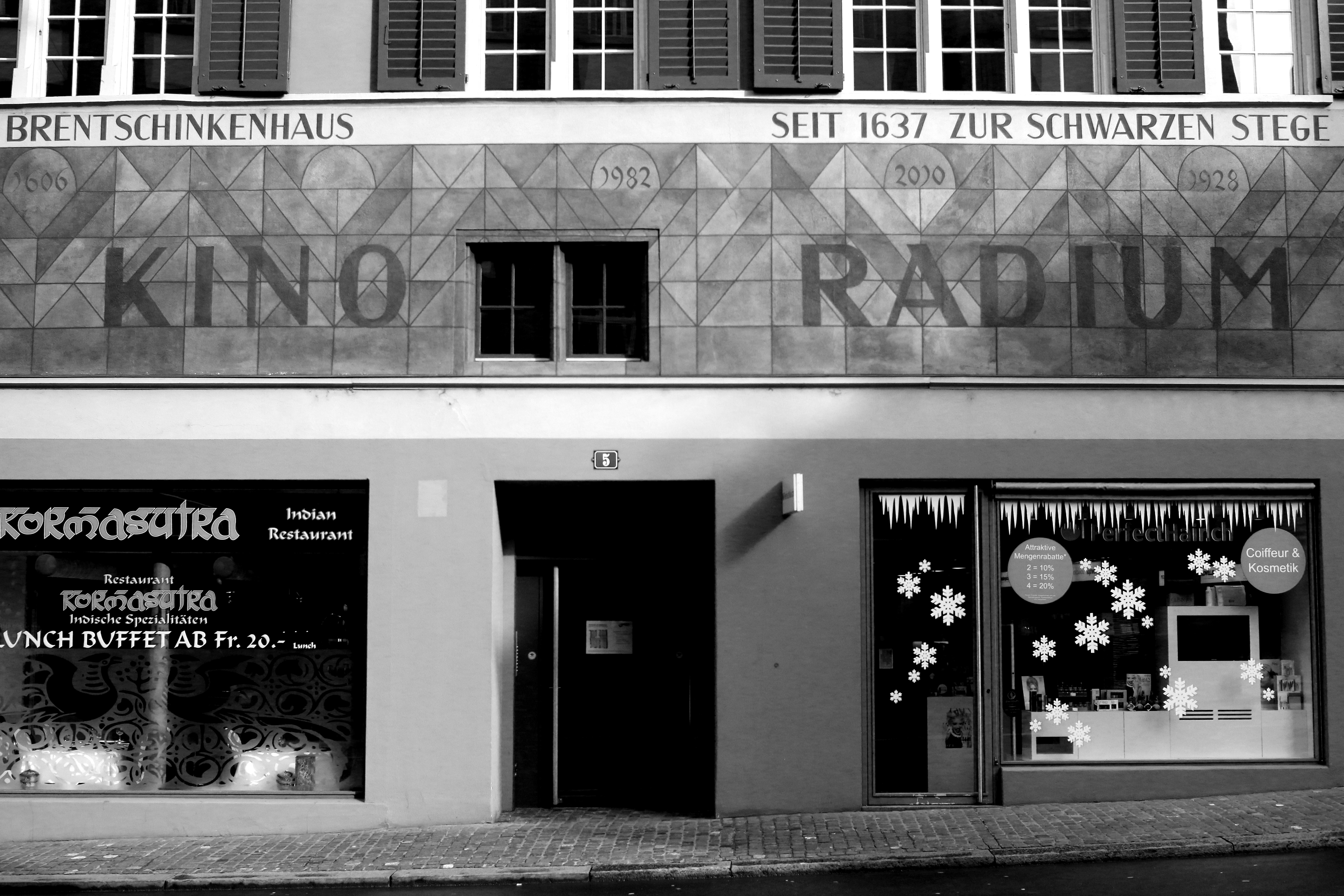 Kino Radium, Zürich, end of February or early March, 2014. While Flickr gives a date of January 1st, 2000, another photo from the same source shows a newspaper stand with a visible February 2014 cover of Der Spiegel. Therefore, the photo has been taken between February 24th and March 2nd, 2014